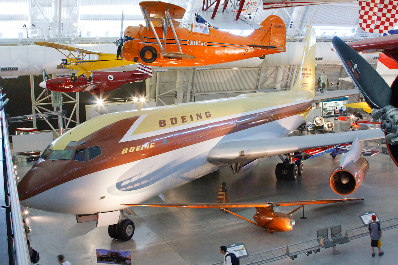 Boeing 367-80, the Prototype of the 707-series, located in the Steven F. Udvar-Hazy Center - the museumshangar of the Smithsonian-Institute in Washington DC